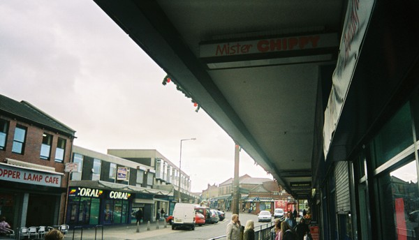 A view of Armley Town Street.